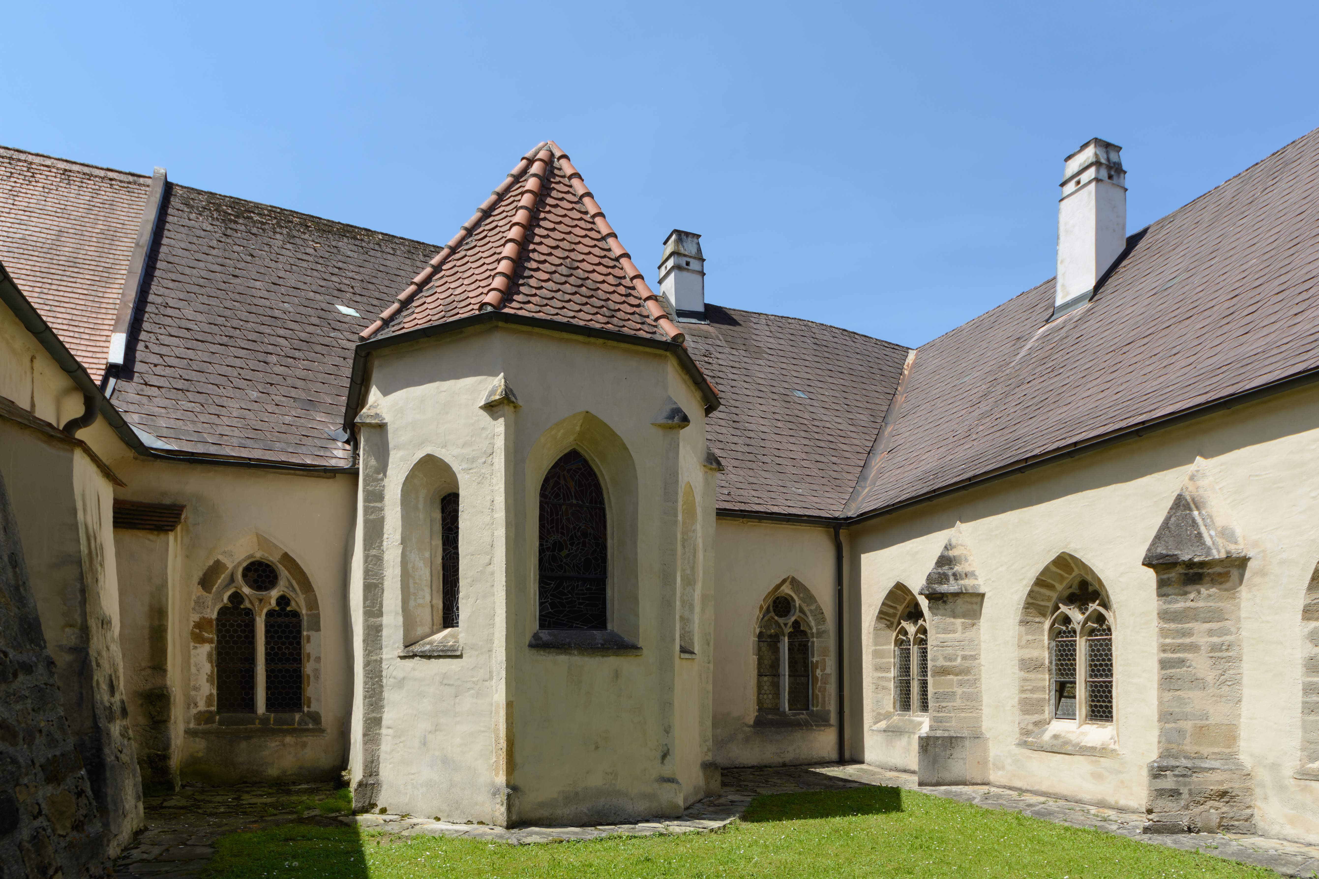 Inner courtyard of the cloister of the collegiate church Ardagger, Lower Austria